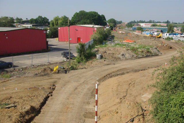 New road construction, New Bilton